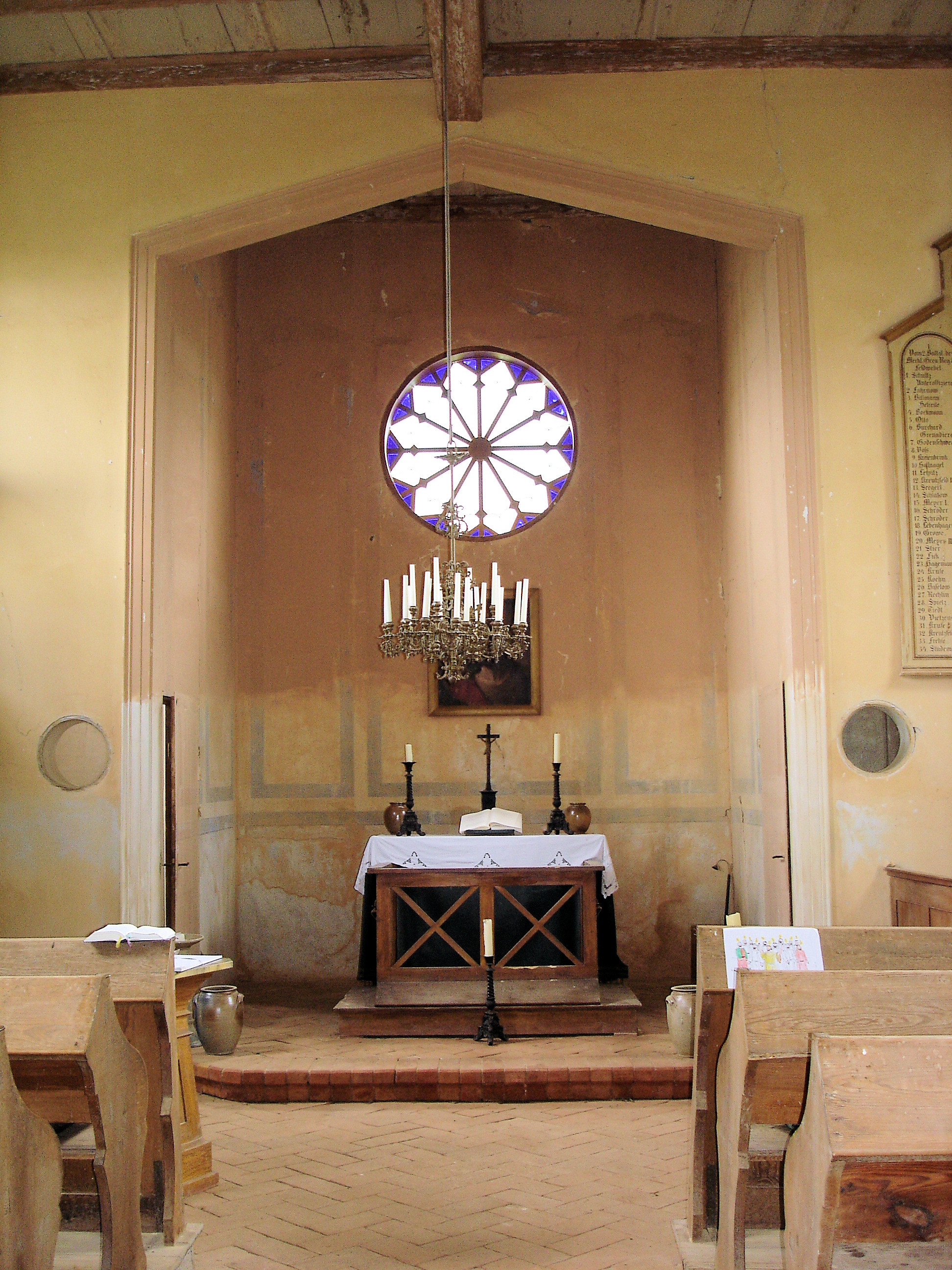 Church in Alt Gaarz, Mecklenburg, Germany